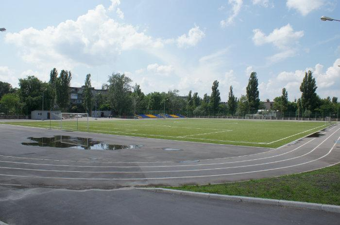 Hirnyk Stadium in Komsomolsk, Poltava Oblast, Ukraine